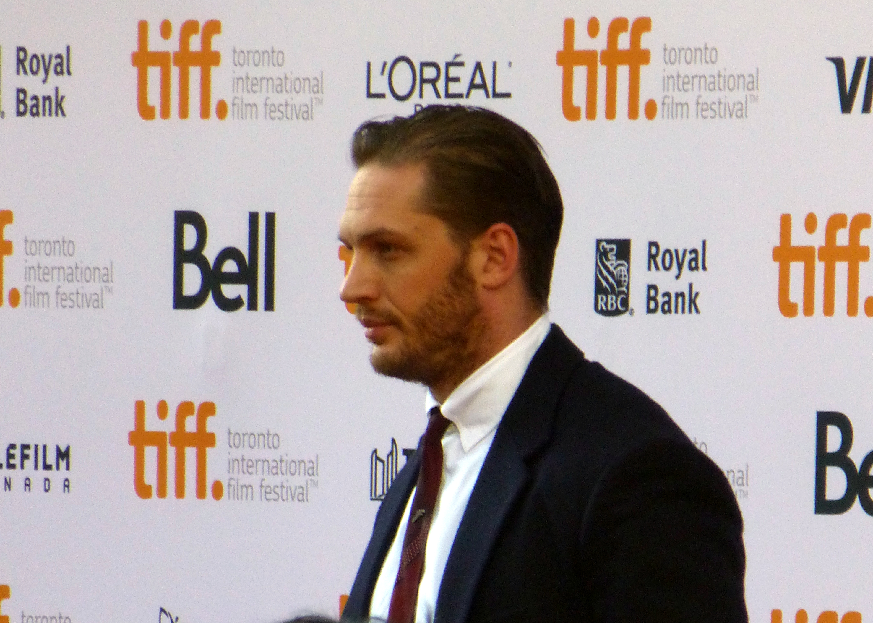 Tom Hardy at the premiere of The Drop, 2014 Toronto Film Festival